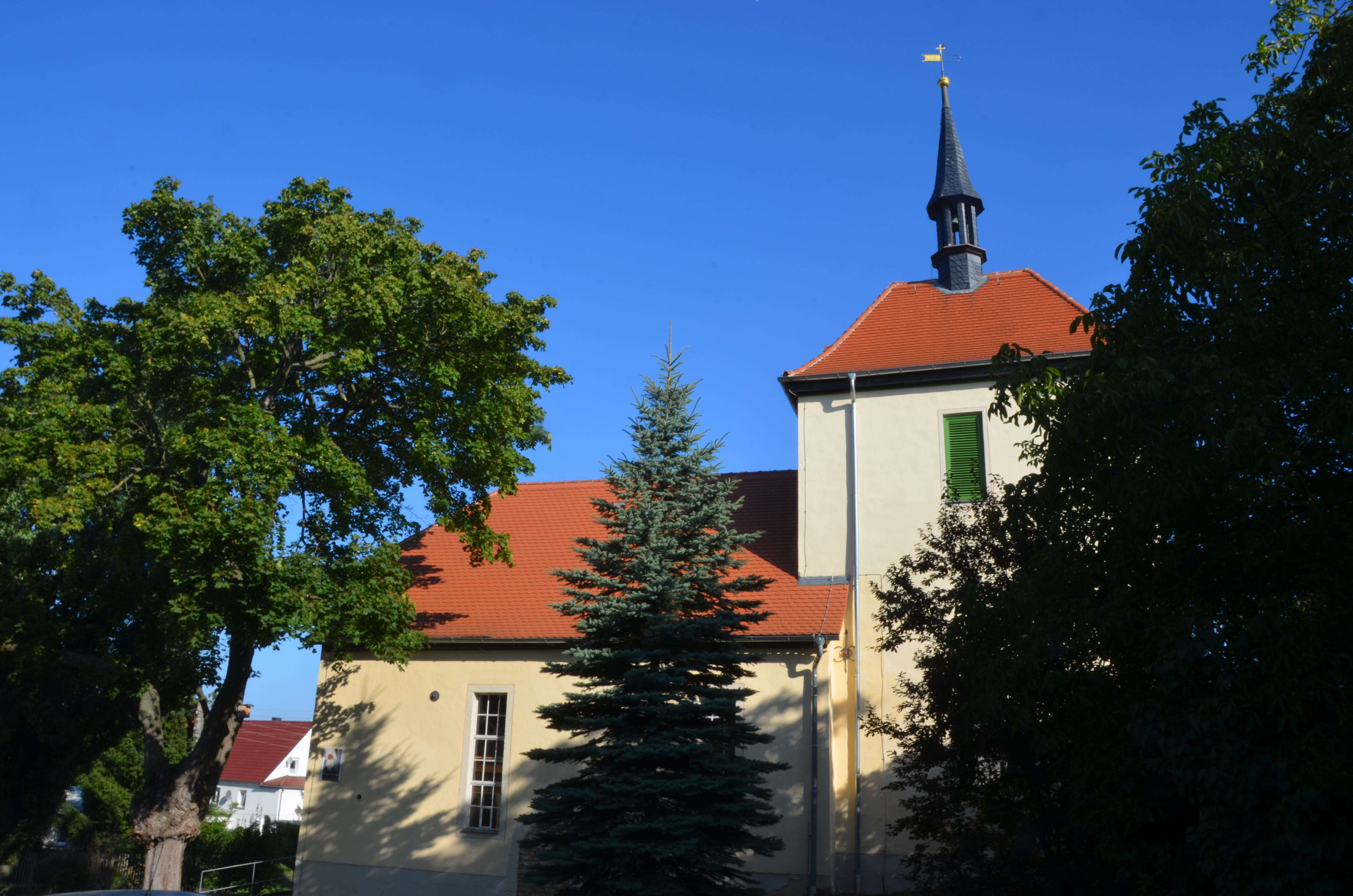 Church in Rannstedt